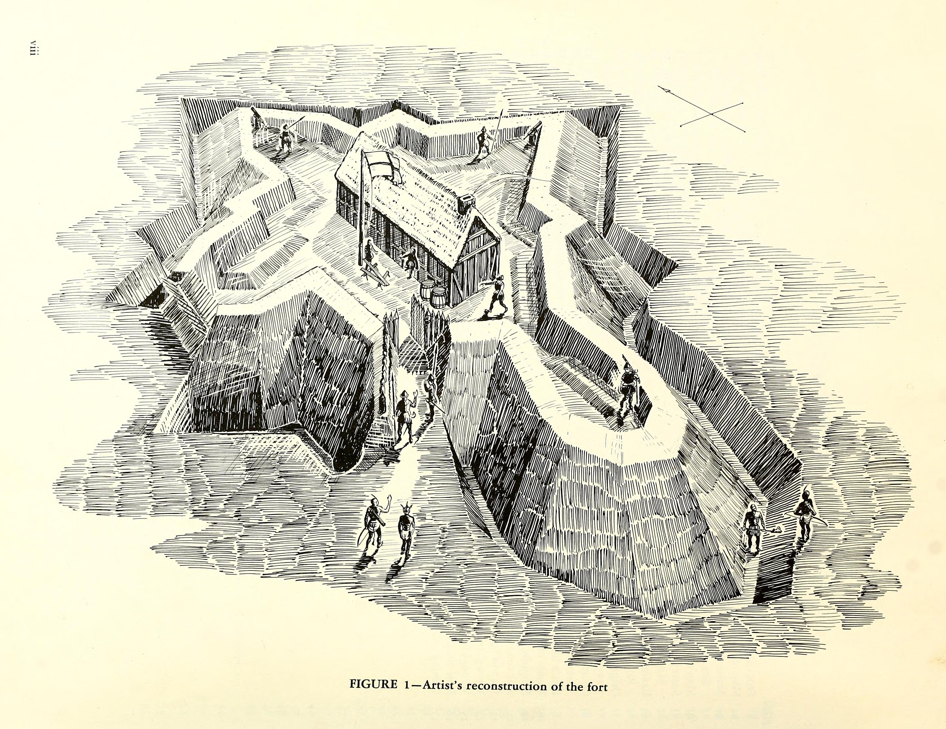 A 1962 illustration depicting the artist's reconstruction of the fort built by Ralph Lane for the 1585 Roanoke Colony. In modern times the fort has come to be known as "Fort Raleigh," particularly since efforts to restore the earthwork at Fort Raleigh National Historic Site.